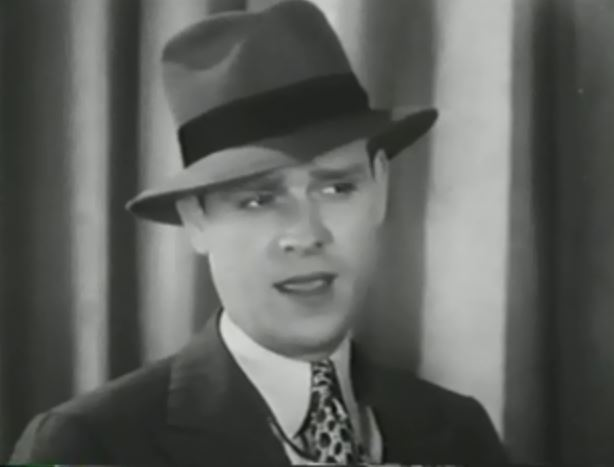 Low resolution screenshot of John Harron from the film The Murder in the Museum (1934). The film is now in the public domain.